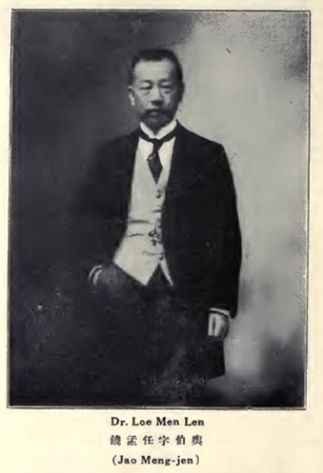 Rao Mengren (1882-？)